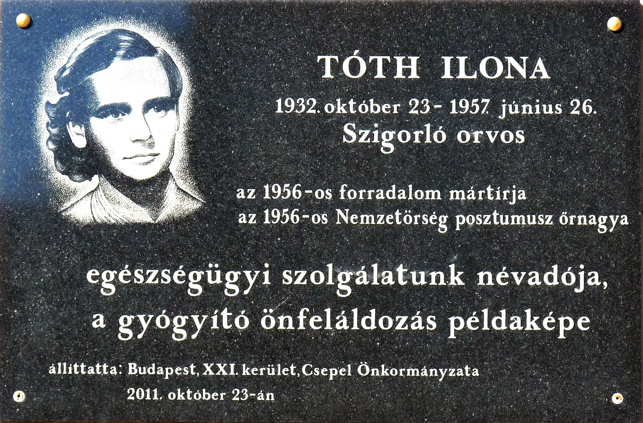 Commemorative plaque to Ms. Ilona Tóth (1932–1957) Hungarian medical student, affixed to the front of the clinic bearing his name. (Budapest, District XXI, Görgey Artúr Square Nr 8)